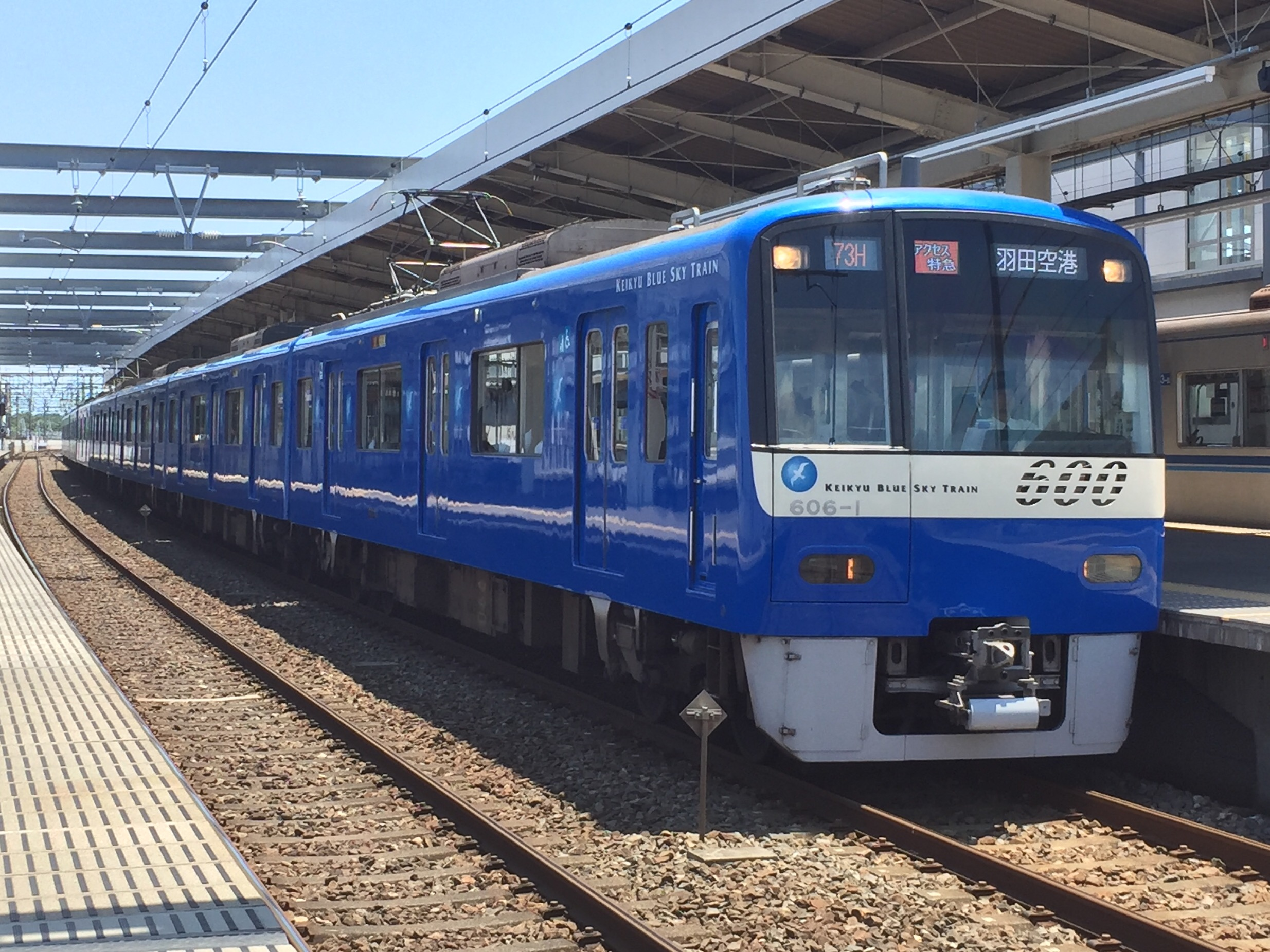 Keikyu 600 series EMU set 606 in "Blue Sky Train" livery at Shin-Kamagaya Station